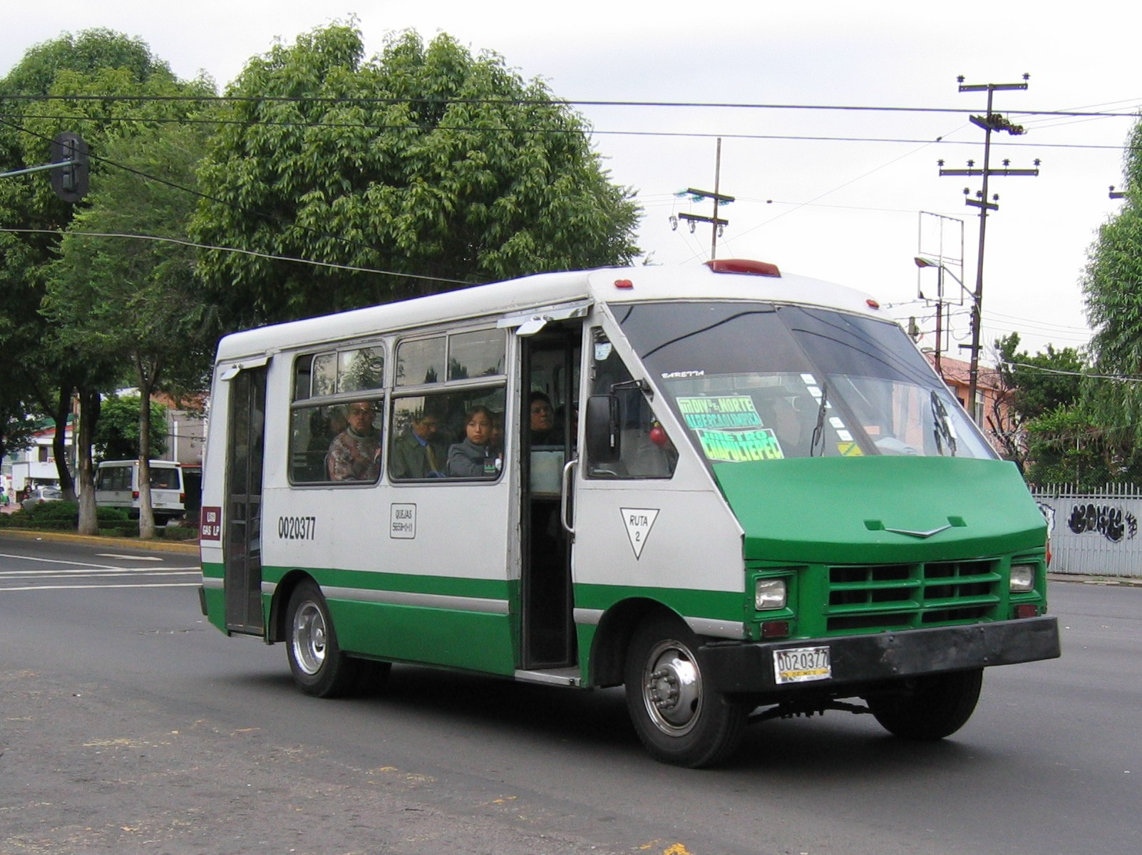 Author: Daniel Manrique (Roadmaster). Photo taken expressly for wikipedia. Description: A Mexico City public transport "microbus" or "pesero". Location: División del Norte avenue in Mexico City.